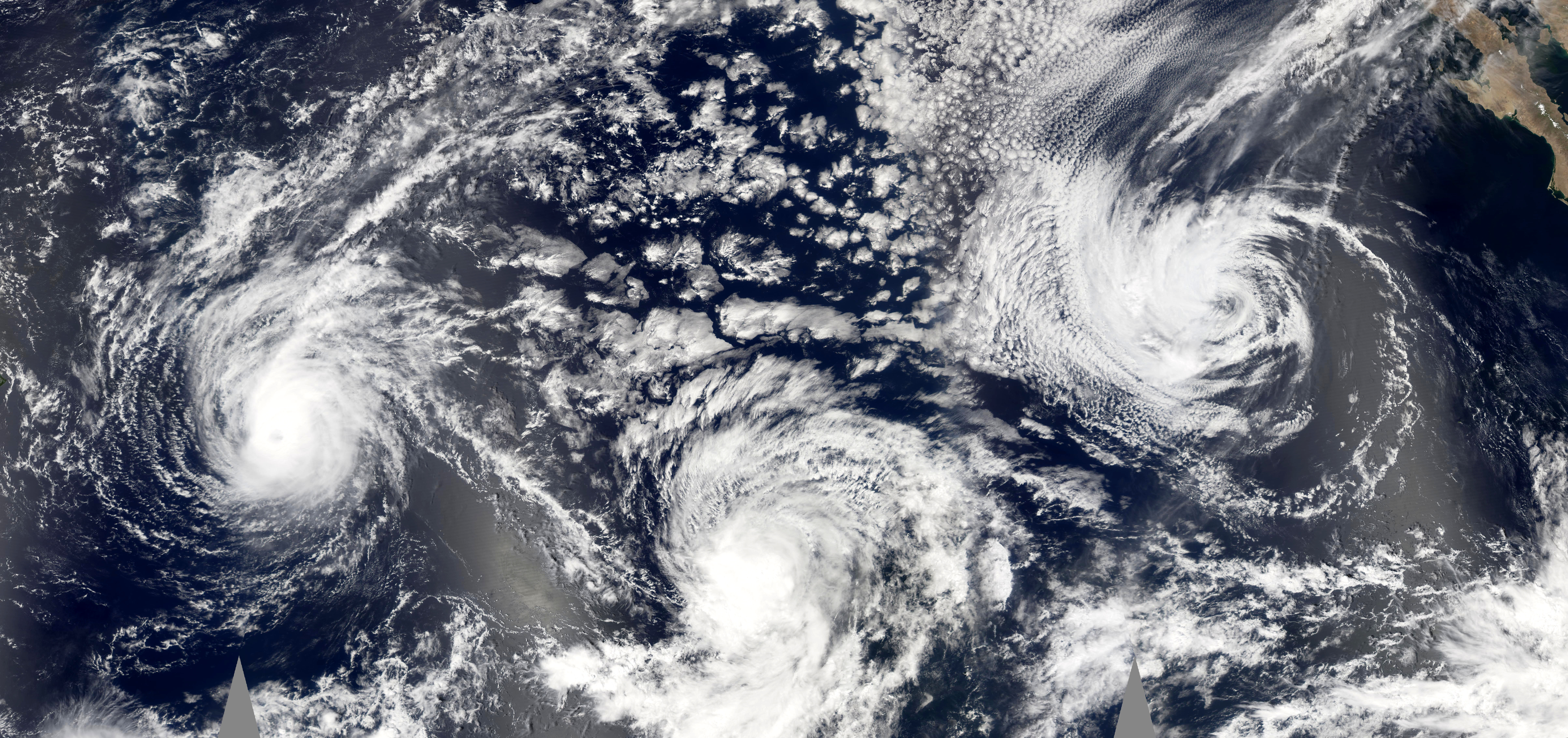 This unusual mosiac of storms shows three well-formed tropical storms in the eastern Pacific off the coast of Baja California, Mexico. They are, from left to right, Hurricane Jova, Hurricane Kenneth, and Tropical Storm Max. Also shown is an intensifying tropical depression which later developed into Tropical Storm Norma, though it had not quite earned the name at the time the Moderate Resolution Imaging Spectrometer (MODIS) made this series of observations. None of the storms are predicted to affect land. The mosaic combines observations spanning the eastern Pacific from Mexico almost all the way to Hawaii. It was created by merging data obtained by both the Terra and Aqua MODIS instruments from two seperate satellite passes each. Small gray gaps show where the MODIS swaths did not quite overlap. These data were obtained by the two MODIS instruments on September 21, 2005, between 11:25 a.m. and 2:35 p.m. Pacific Daylight Time. The high resolution image linked to above is at 500 meter resolution.